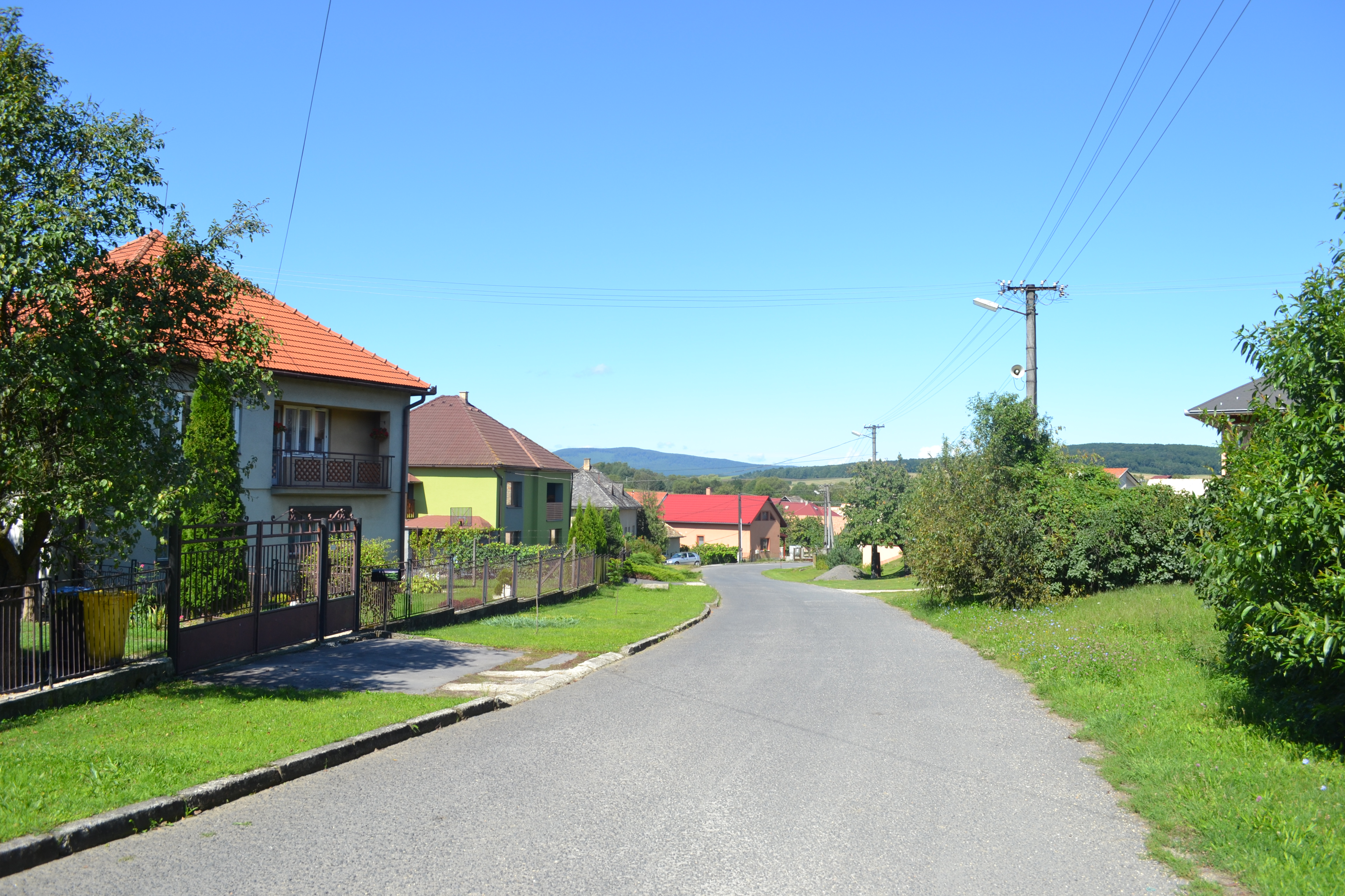 Street of the village Veľká Ves